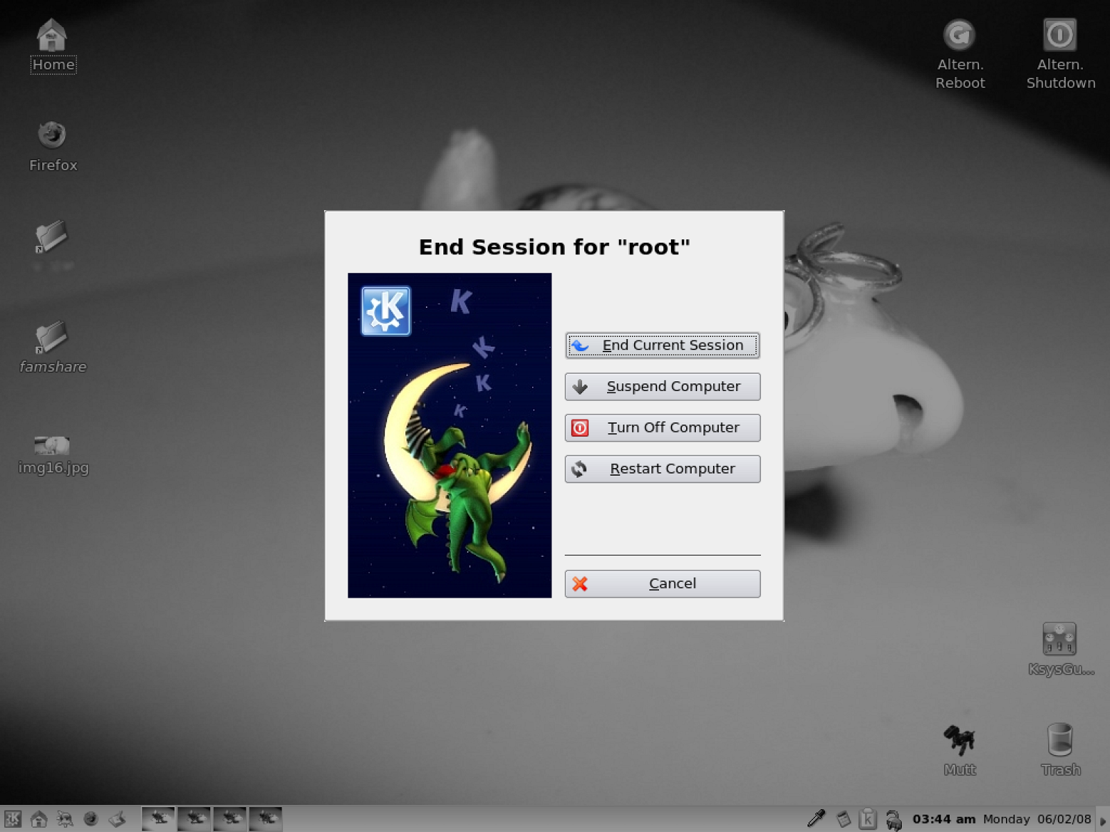 A screenshot of KDE 3.5, showing the default logout prompt.